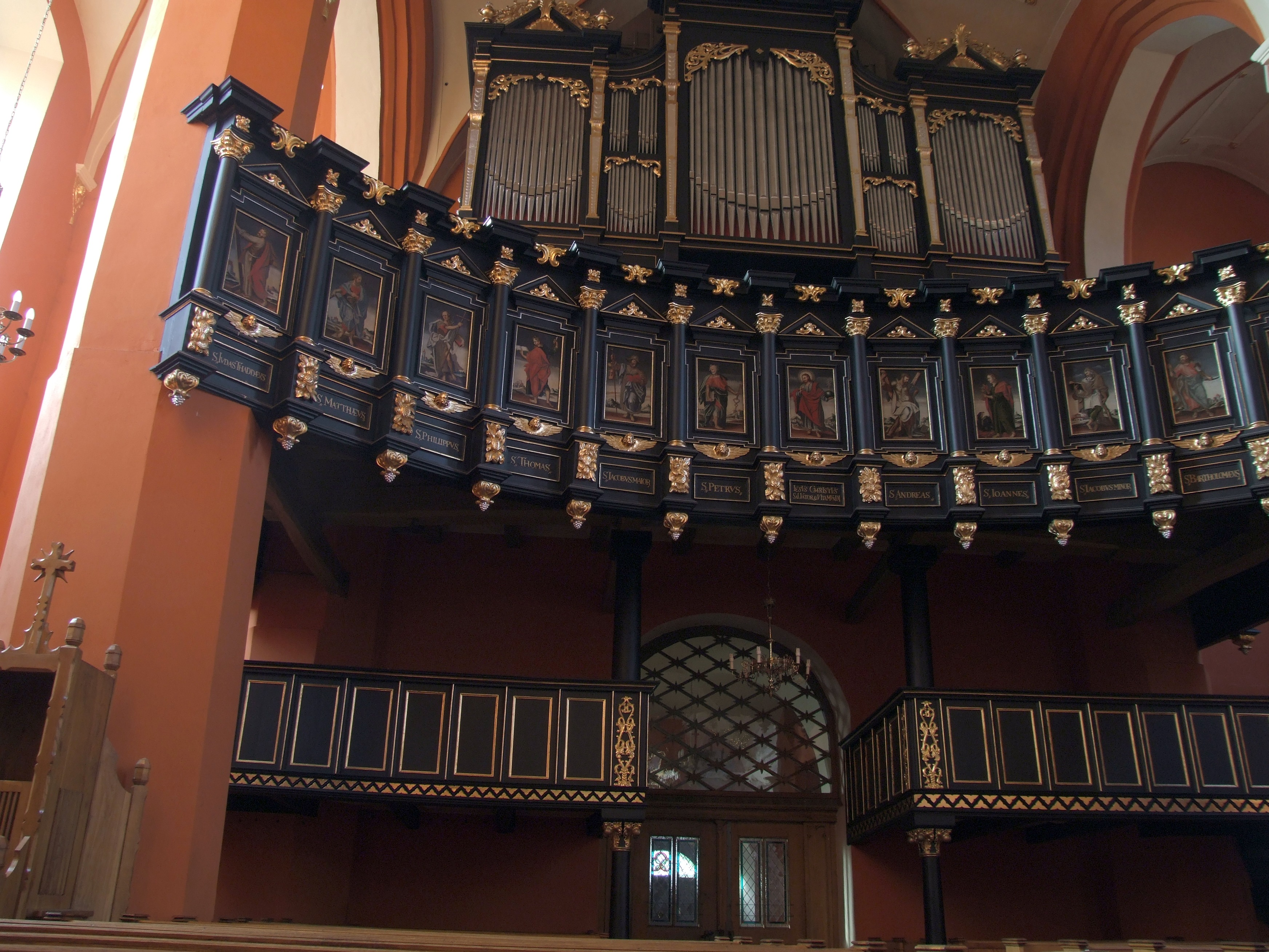 baroque quire in the cathedral of Zielona Góra Barokowa empora konkatedry w Zielonej Górze Author: Mohylek 17:26, 1 February 2007 (UTC)